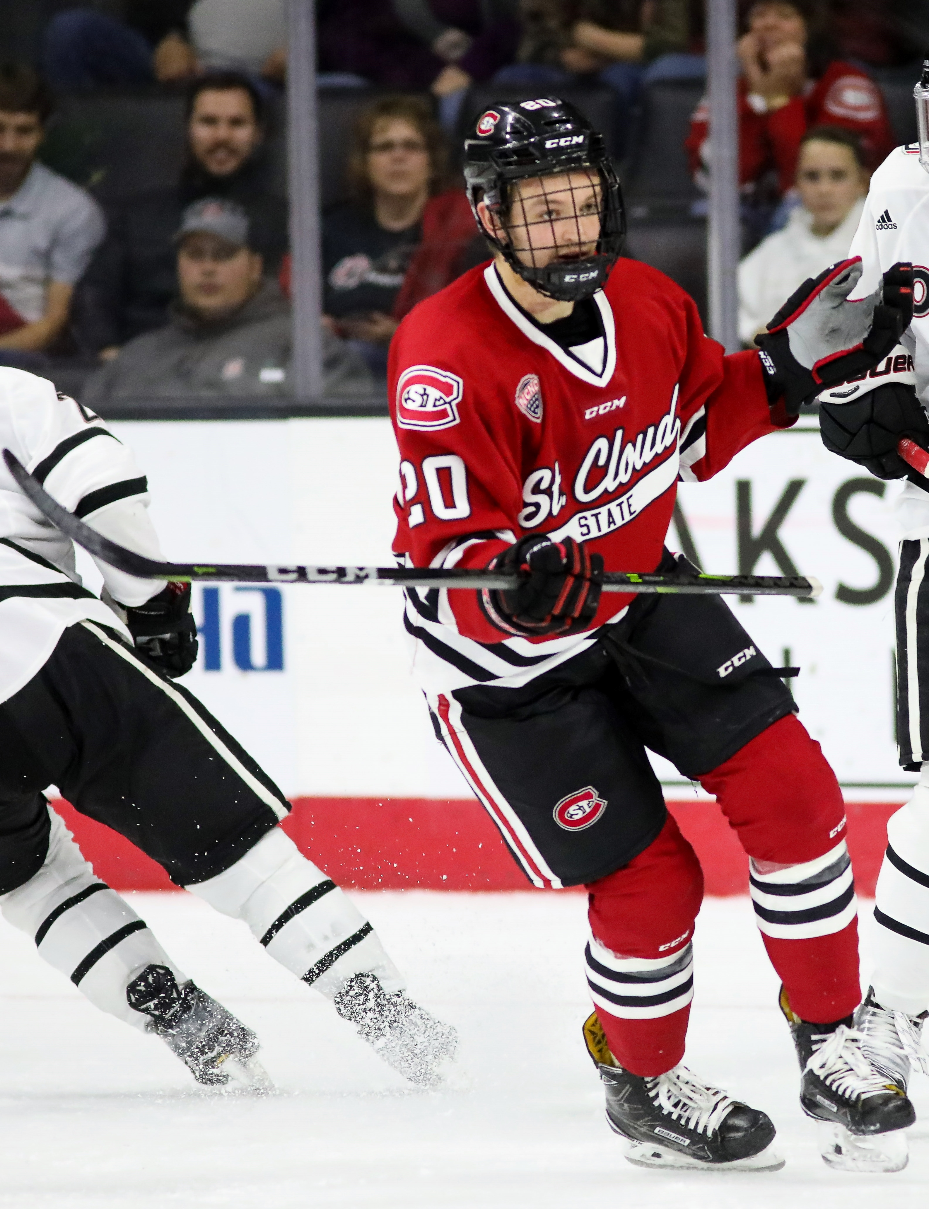 Will Borgen, American ice hockey player